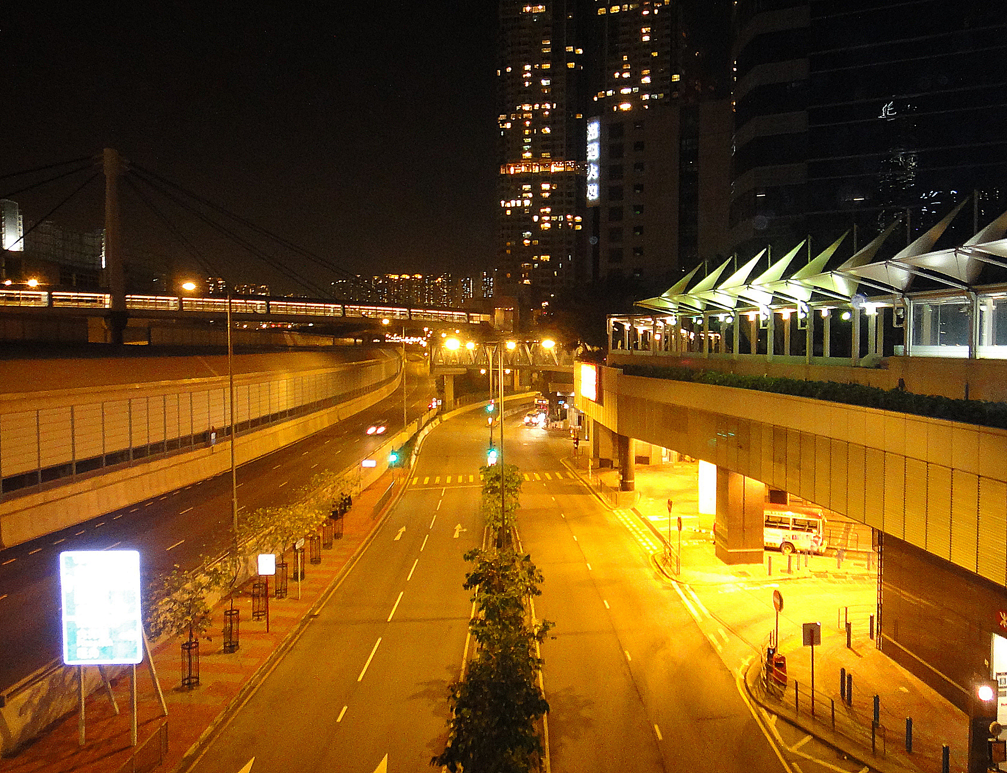 A view of Tai Kok Tsui at night